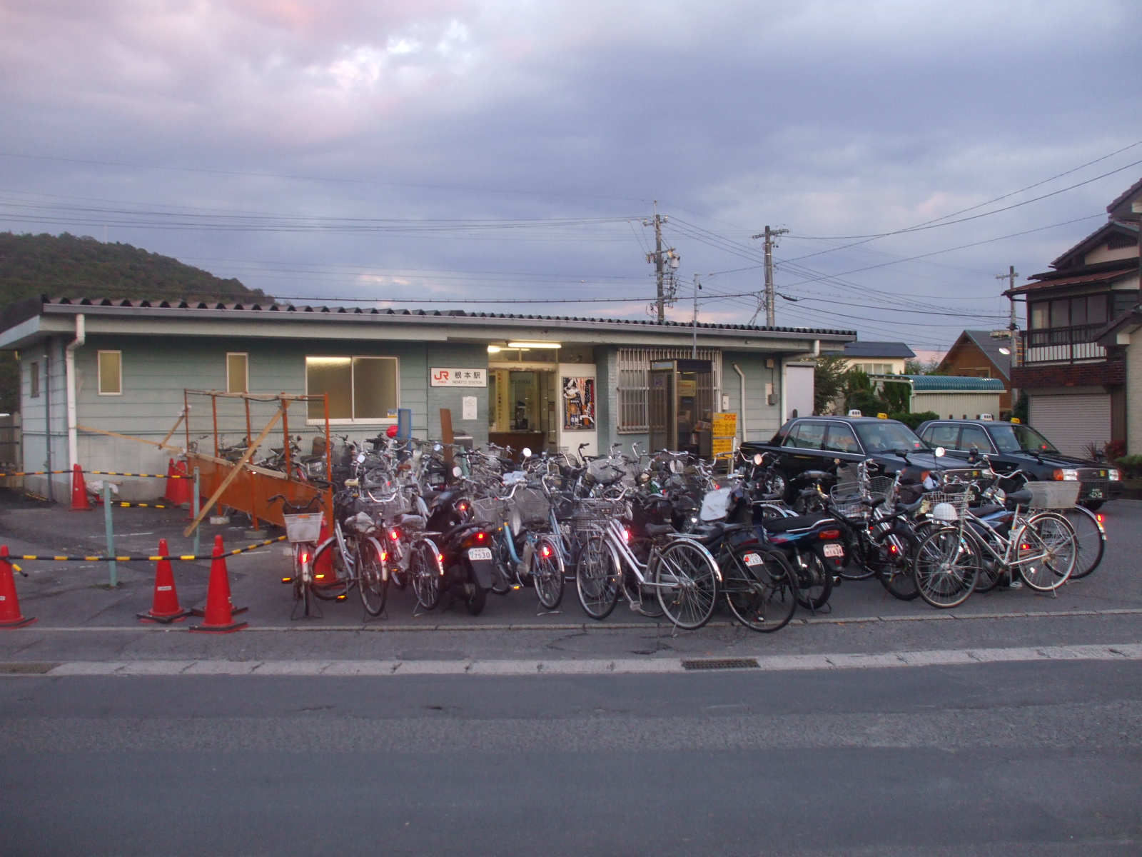 JR Tokai Nemoto Station at Gifu,Tajimi City.